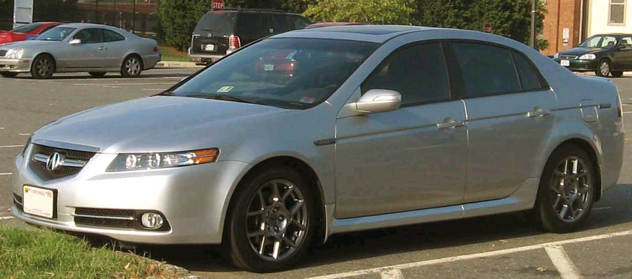 2007 Acura TL photographed in USA.